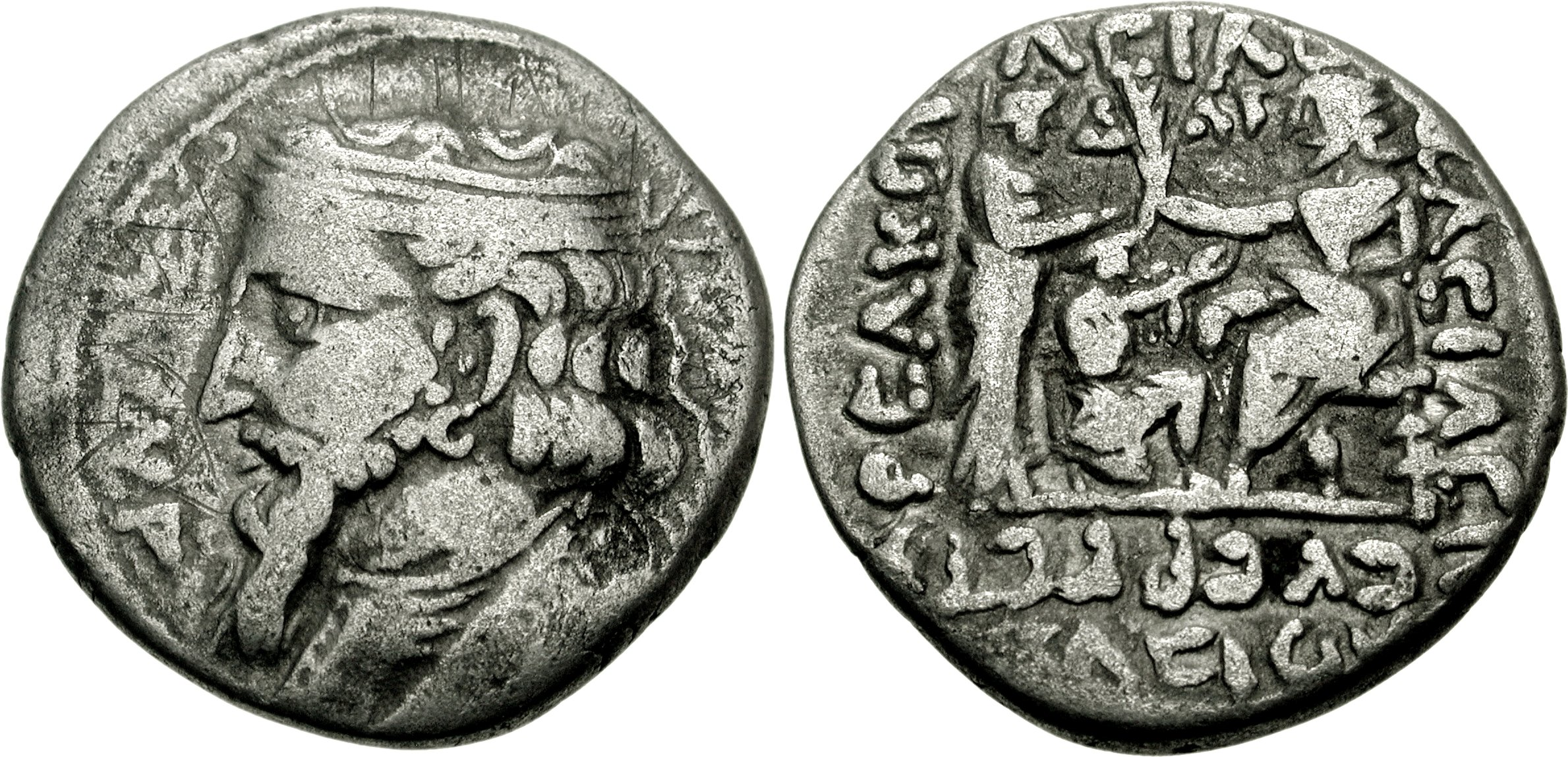 Coin of the Parthian king Artabanus II. Reverse: the king is kneeling before a god, probably Mithra.[1]